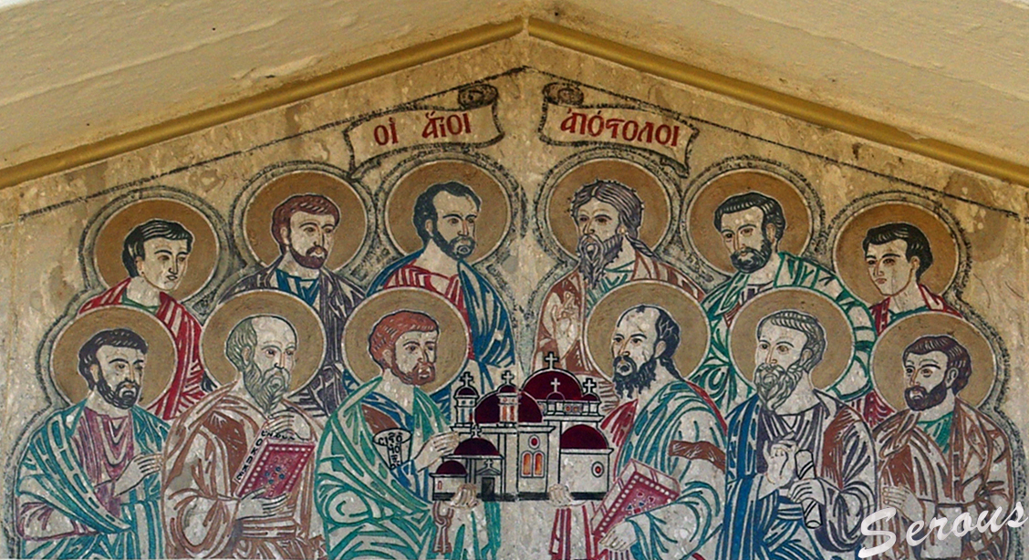 Fresco "12 apostles"